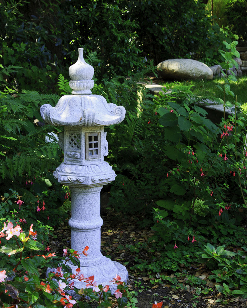 Japanese Lantern in the Paul Shoup House garden, in Los Altos California